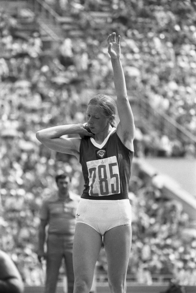 “1980 Summer Olympics silver medal winner Olga Rukavishnikova”. 1980 Summer Olympics silver medal winner Olga Rukavishnikova during a shot-put tournament (14 m 9 cm) at Moscow's Lenin Stadium.